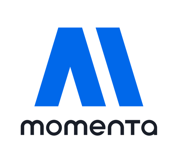 Momenta Logo